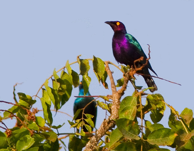 Lamprotornis splendidus - Splendid Glossy Starling - A Couple on the way to Ngaundere, Kamerun - Original by Ron Knight, March 15 ,2011